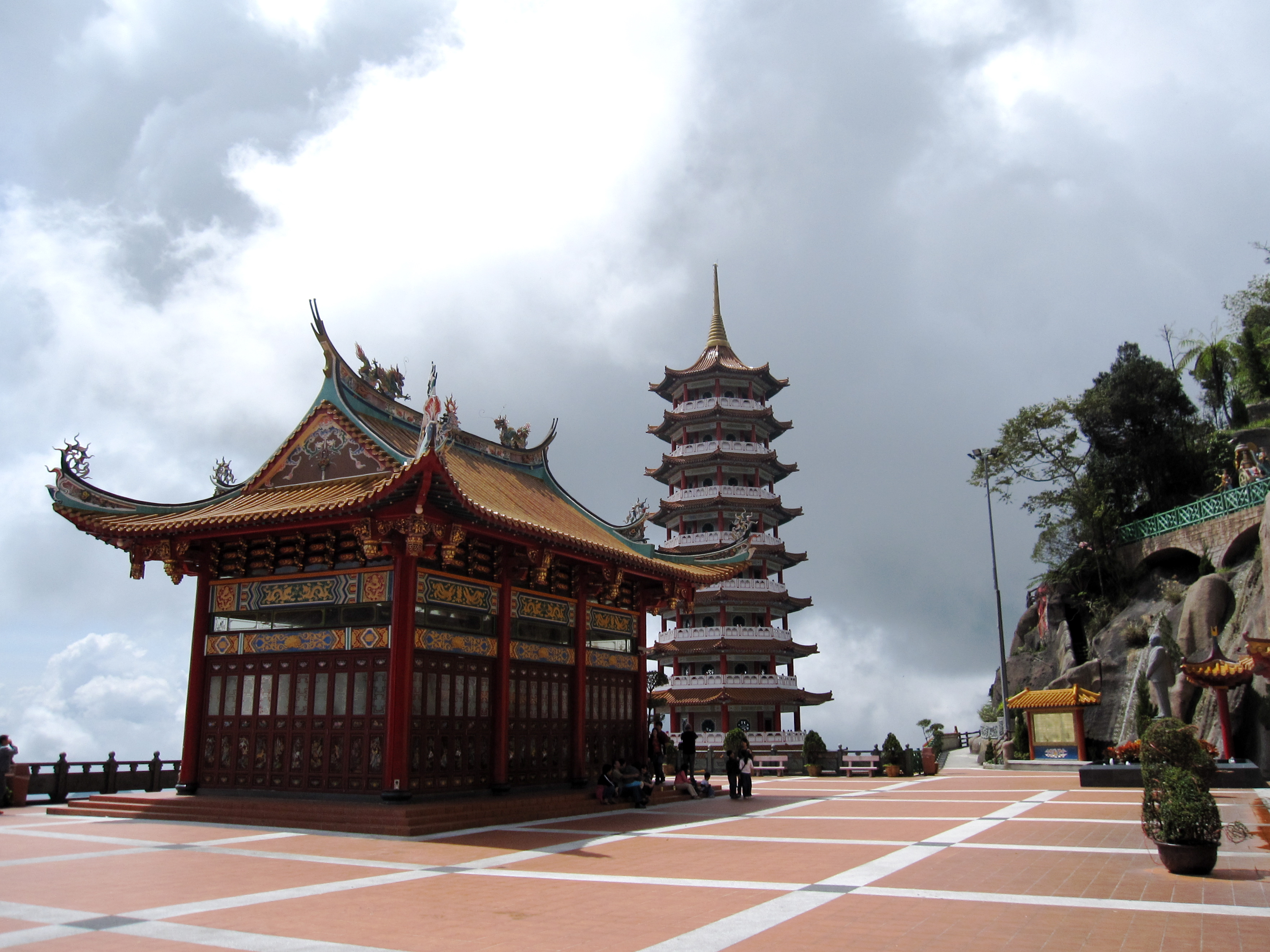 Chin Swee Caves Temple in the Genting Highlands, Kuala Lumpur.